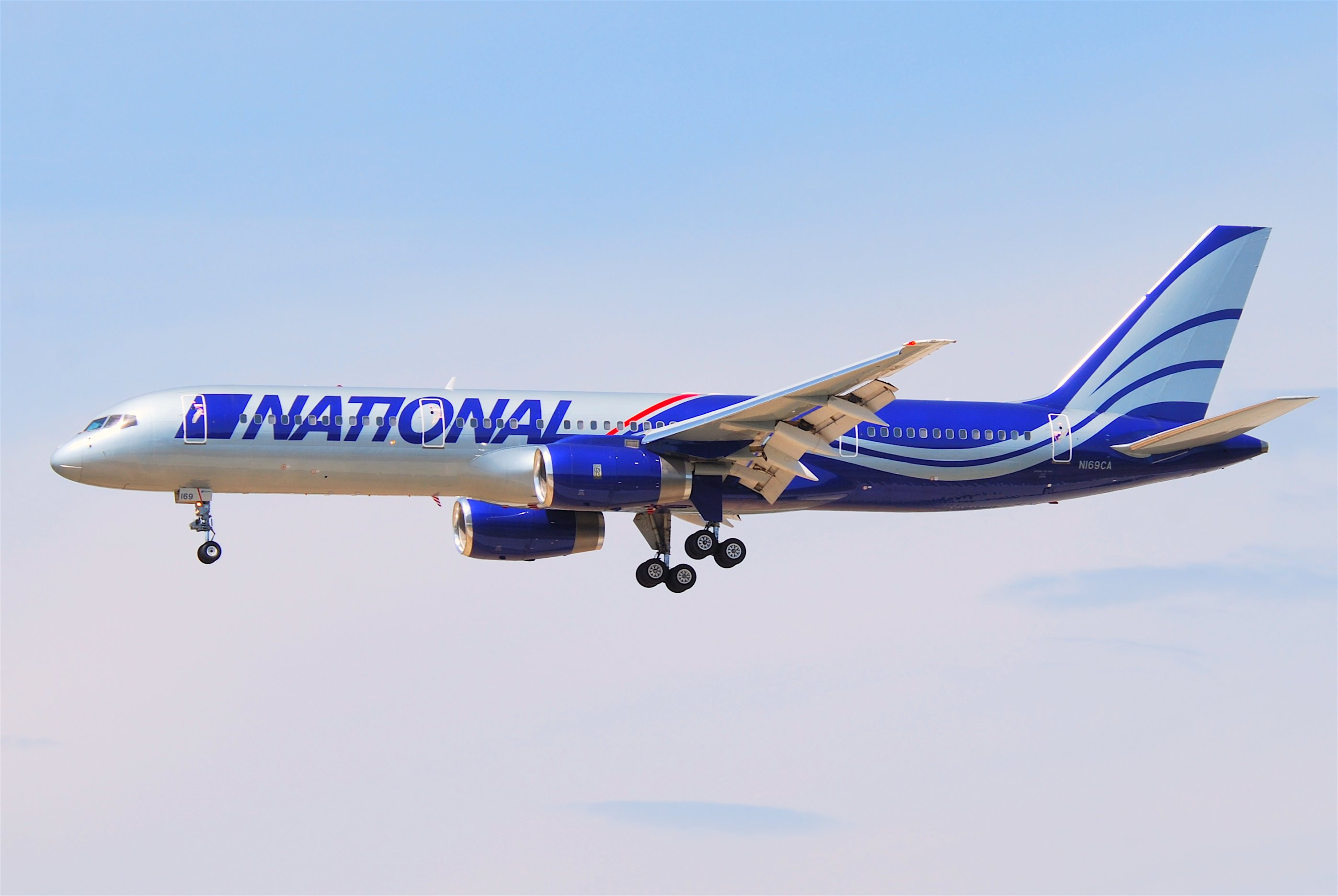 National Airlines Boeing 757-236; N169CA@FRA;16.07.2011/609kf